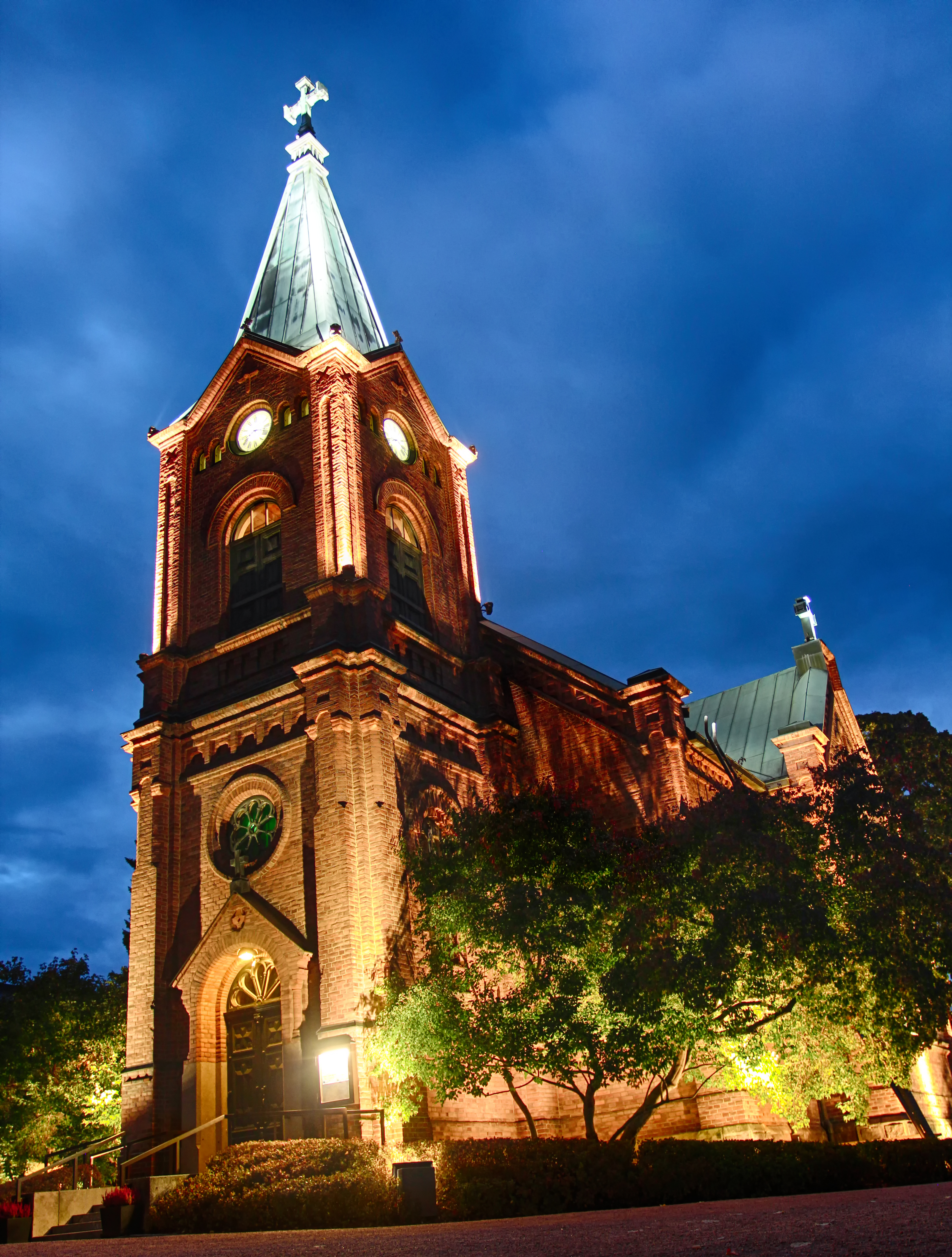 Jyväskylä City Church in Finland